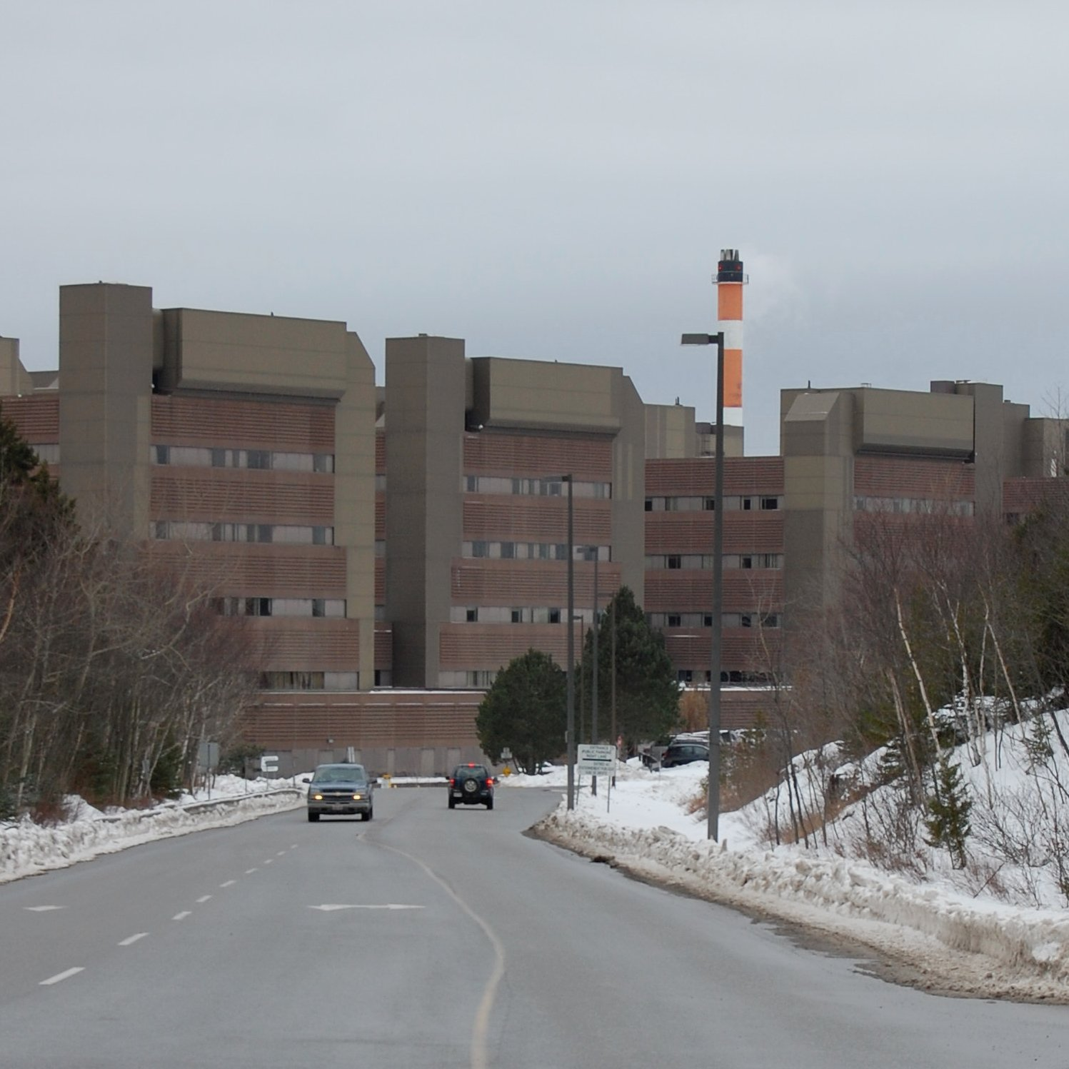 Self made photo